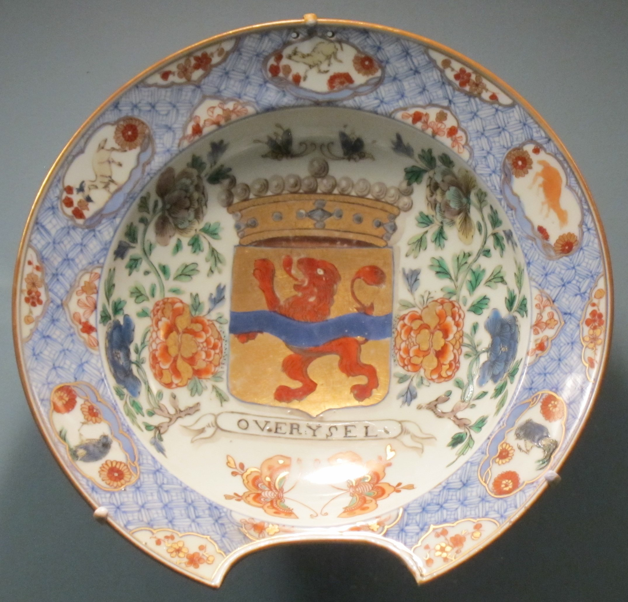 Barber’s bowl, c. 1700, China, hard-paste porcelain with underglaze blue famille verte enamel decoration, Honolulu Academy of Arts. Bowl is decorated with the coat of arms of Overysel (Overijssel), Netherlands